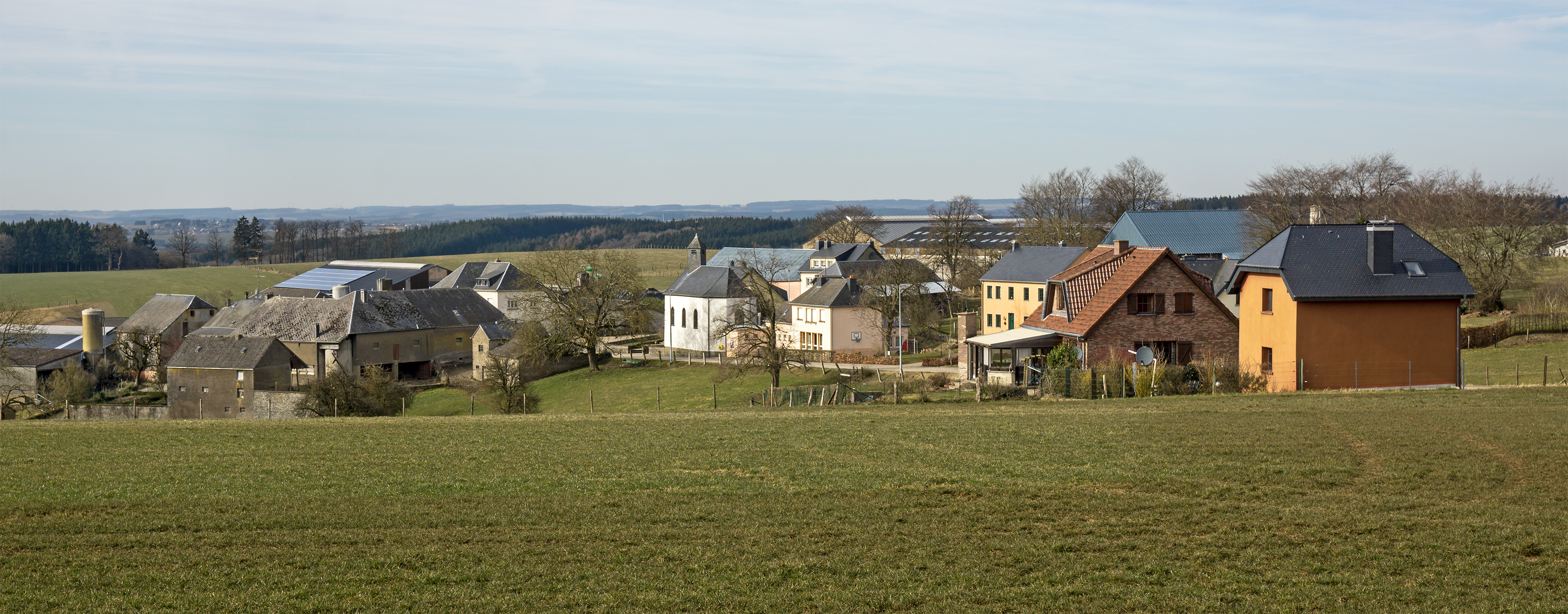 Panorama of Heispelt